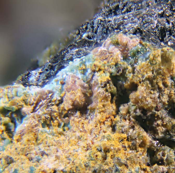 Pink crystals of the very rare copper arsenate babanekite from one of the few localities known worldwide: Fenugu Sibiri Mine, Gonnosfanadiga, Sardinia, Italy.